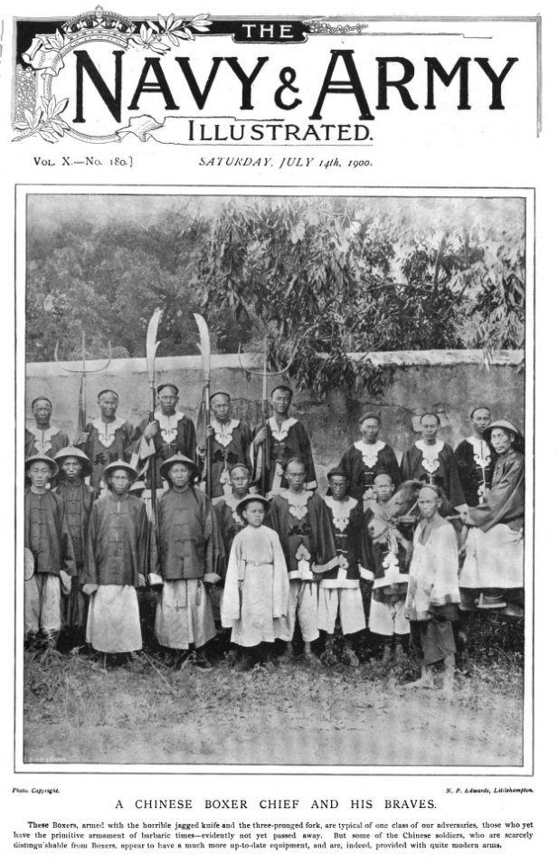 1900 photograph(author unknown) of Manchu Qing soldiers with knifes and spears as weapones. Chinese soldiers of an unidentified banner or milita unit in the early 1900s. Note the officer mounted on the horse on the right. The polearms appear to be yinyuedao (slightly over 2 meters long), also commonly known as the kwando/guandao, and a Chinese version of the trident